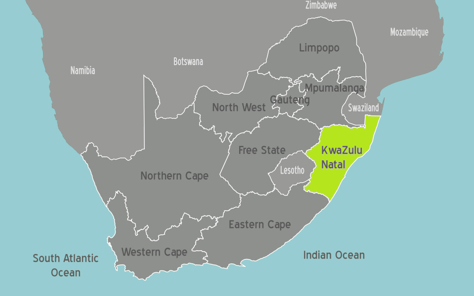 Basic map of KwaZulu-Natal, South Africa map: South Africa Map of: South Africa¤ Source Image:Map-South_Africa.svg